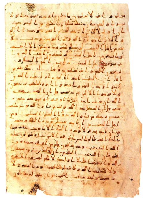 Qur'anic Manuscript written in Hijazi script. Sūrah āl-‘Imrān, verses 34-184.